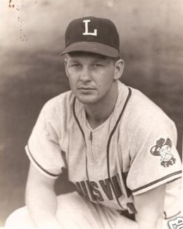 An early 1960s Houston Colt 45's press photo of Merritt Ranew, who was drafted by the team in 1962. The website also shows the information about Ranew in the back of the photograph (which I can upload in request), and without a copyright notice. A check of several other pictures doesn't include copyright notices. It is therefore presumed the entire Colt 45s press kit is PD not renewed/PD no copyright 1978.